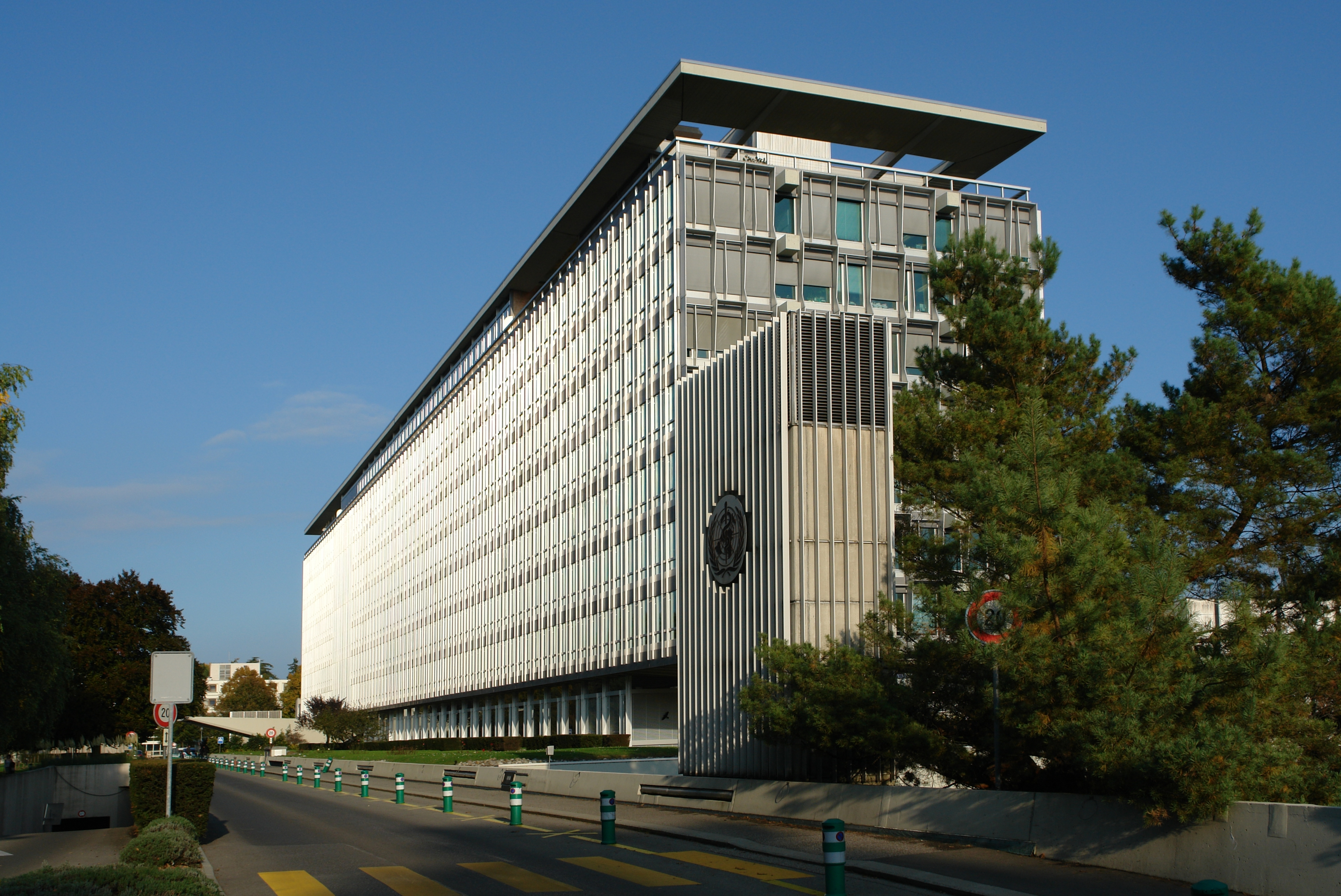 World Health Organisation headquarters from west, Geneva.